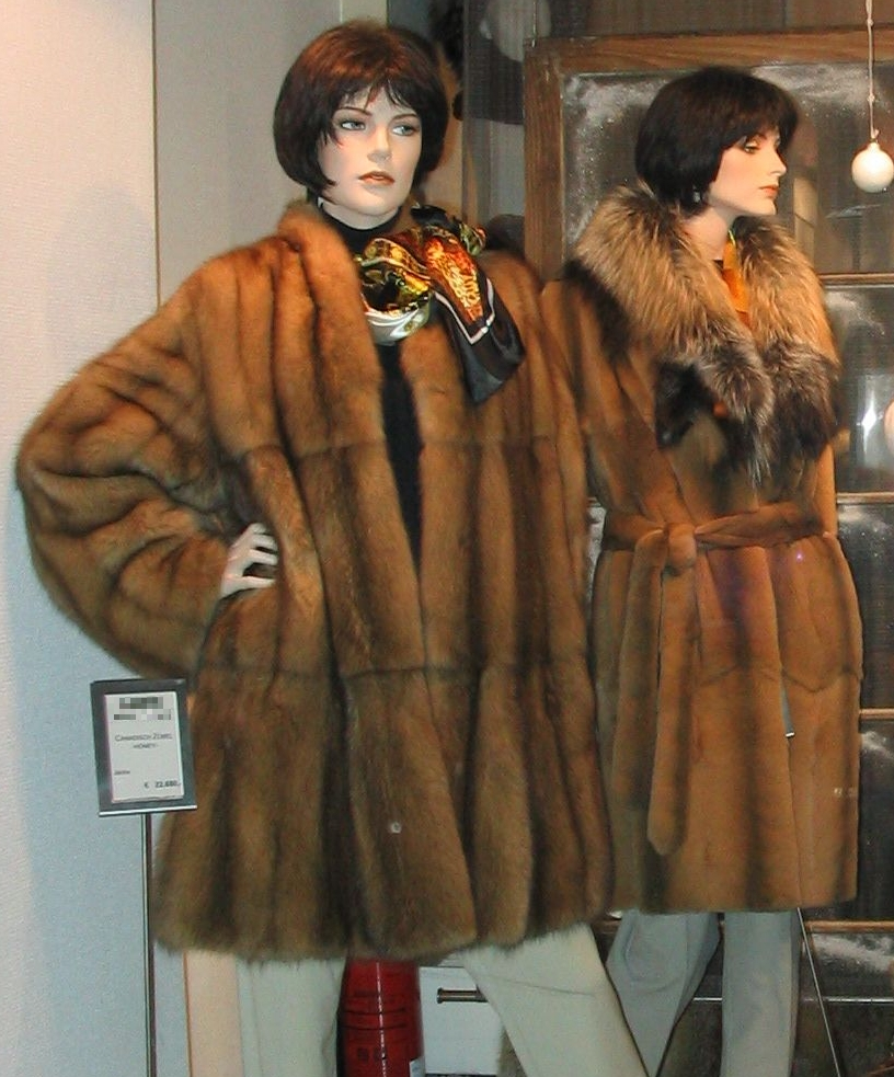 Furrier's shop window, Germany.